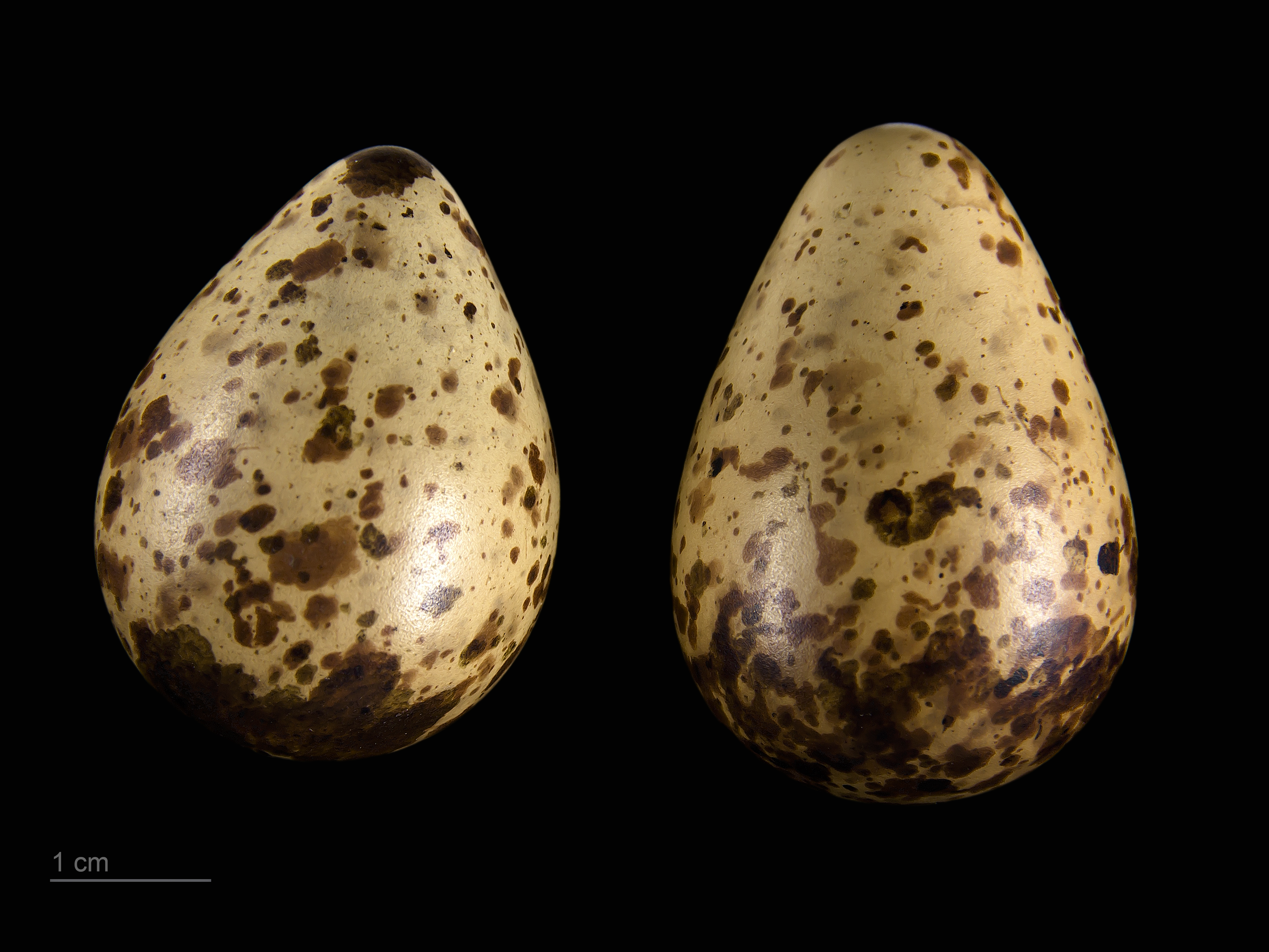 Eggs of dunlin Two specimens of the same spawn ; collection of Jacques Perrin de Brichambaut.